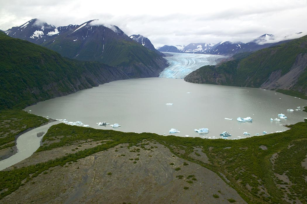 Skilak Glacier and Glacial Lake, Kenai National Wildlife Refuge, Alaska